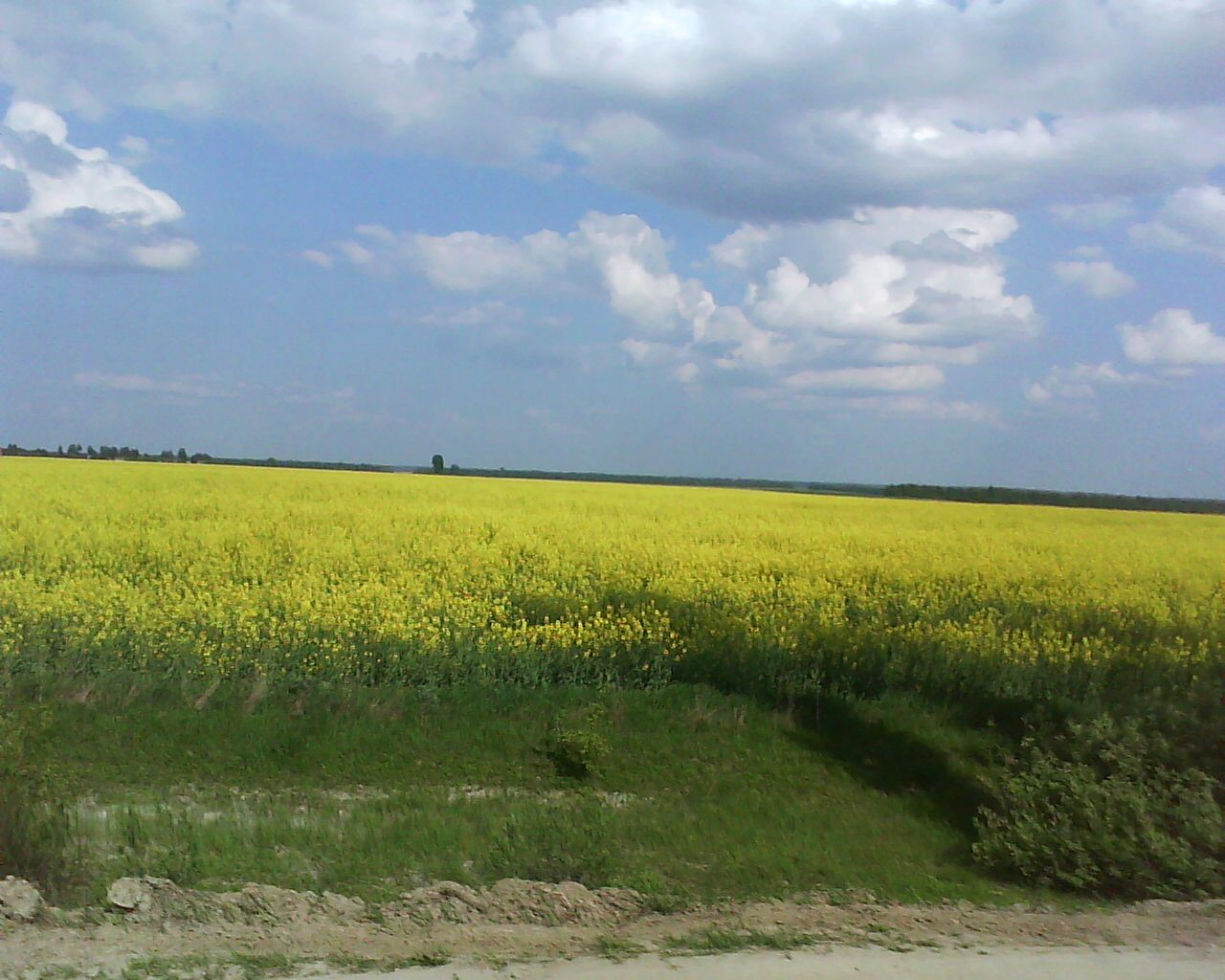 Field. Holovli